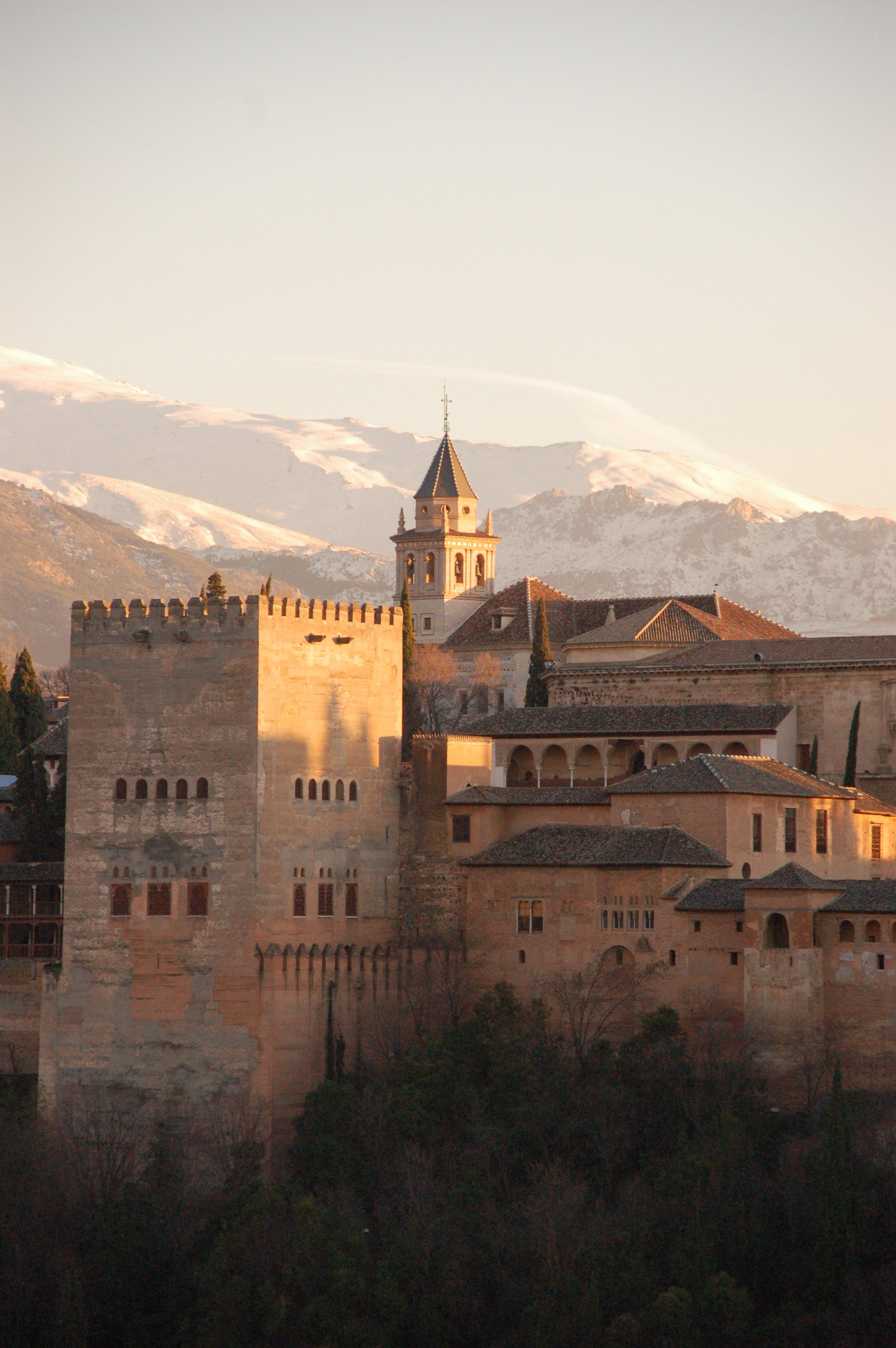 Part of the panorama image below